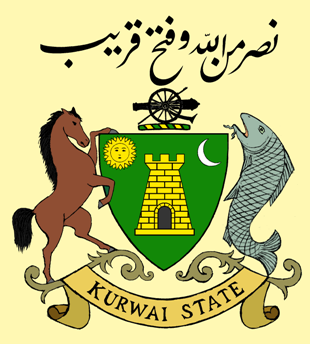 Kurwai State Coat of Arms This work is in the public domain in India because its term of copyright has expired. The Indian Copyright Act applies in India, to works first published in India. According to The Indian Copyright Act, 1957 (Chapter V Section 25), Anonymous works, photographs, cinematographic works, sound recordings, government works, and works of corporate authorship or of international organizations enter the public domain 60 years after the date on which they were first published, counted from the beginning of the following calendar year (ie. as of 2017, works published prior to 1 January 1957 are considered public domain). Posthumous works (other than those above) enter the public domain after 60 years from publication date. Any other kind of work enters the public domain 60 years after the author's death. Text of laws, judicial opinions, and other government reports are free from copyright. Photographs created before 1958 are in the public domain 50 years after creation, as per the Copyright Act 1911. This file may not be in the public domain outside India. The creator and year of publication are essential information and must be provided. See Wikipedia:Public domain and Wikipedia:Copyrights for more details. This image shows a flag, a coat of arms, a seal or some other official insignia. The use of such symbols is restricted in many countries. These restrictions are independent of the copyright status.